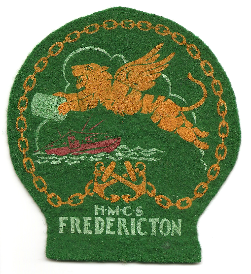 Unofficial crest of HMCS Fredericton (K245): flying tiger dropping a depth charge on a U-boat